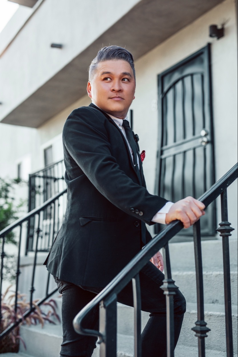 Headshot of JT Tran, founder of the ABCs Of Attraction